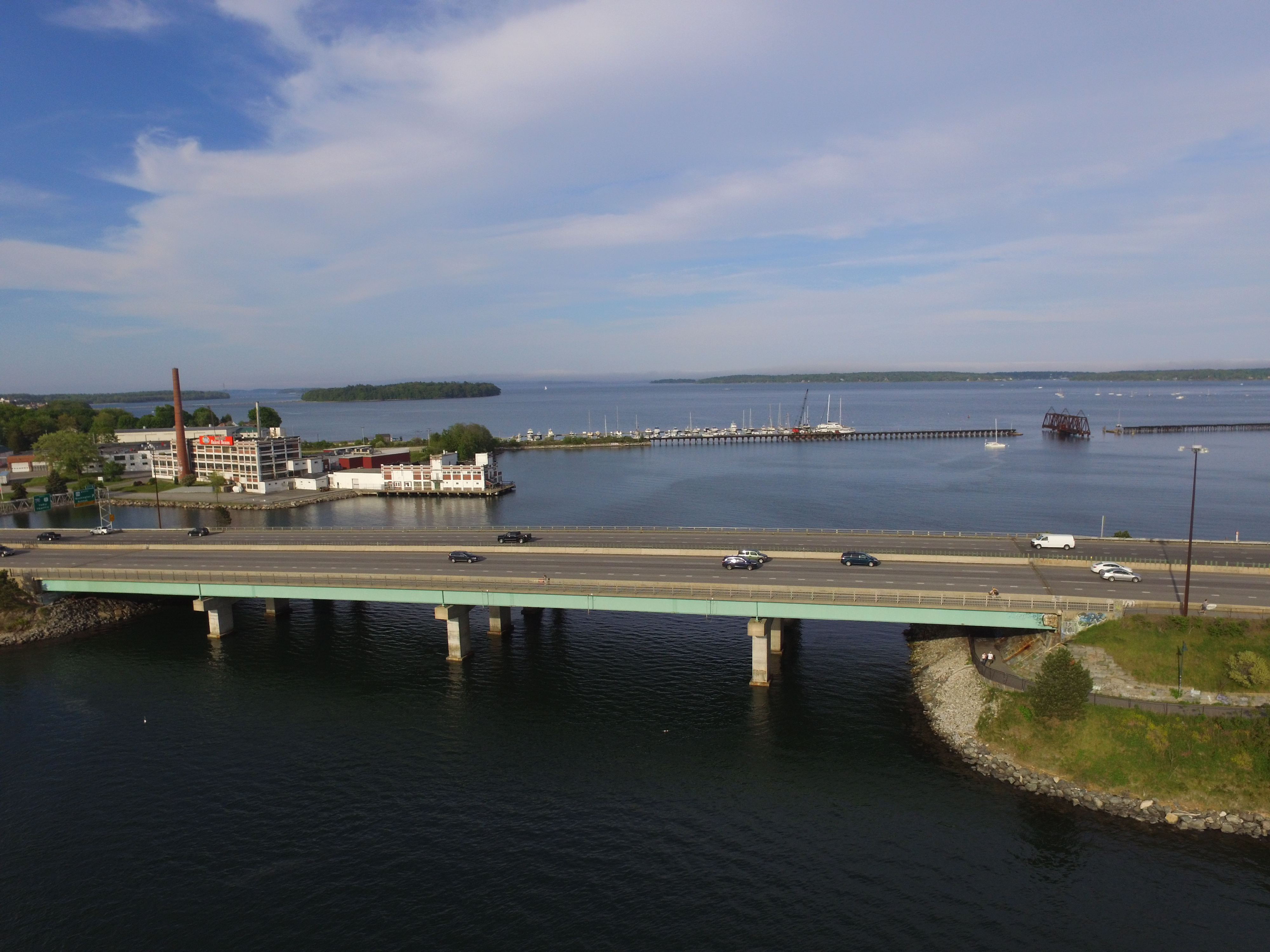 Aerial shot of Tukey's Bridge in Portland Maine with the B&M Baked Beans Factory in the background